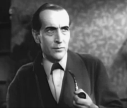 Photo of Arthur Wontner from 1935 film "The Triumph of Sherlock Holmes"